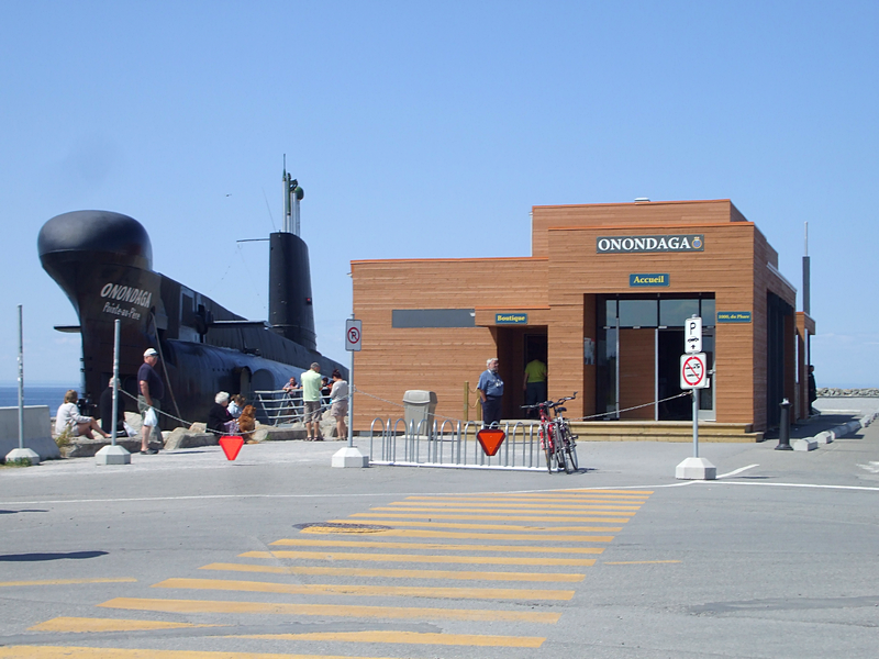 Pavillon of the HMCS Onondaga Pavillon du NCSM Onondaga